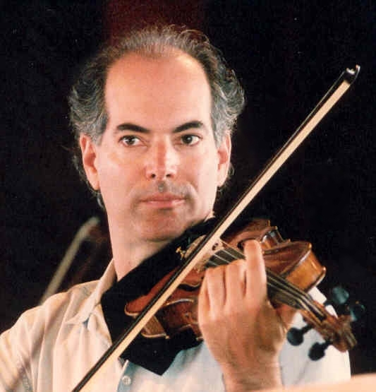 Ralph Evans, first violinist of the Fine Arts Quartet since 1982.